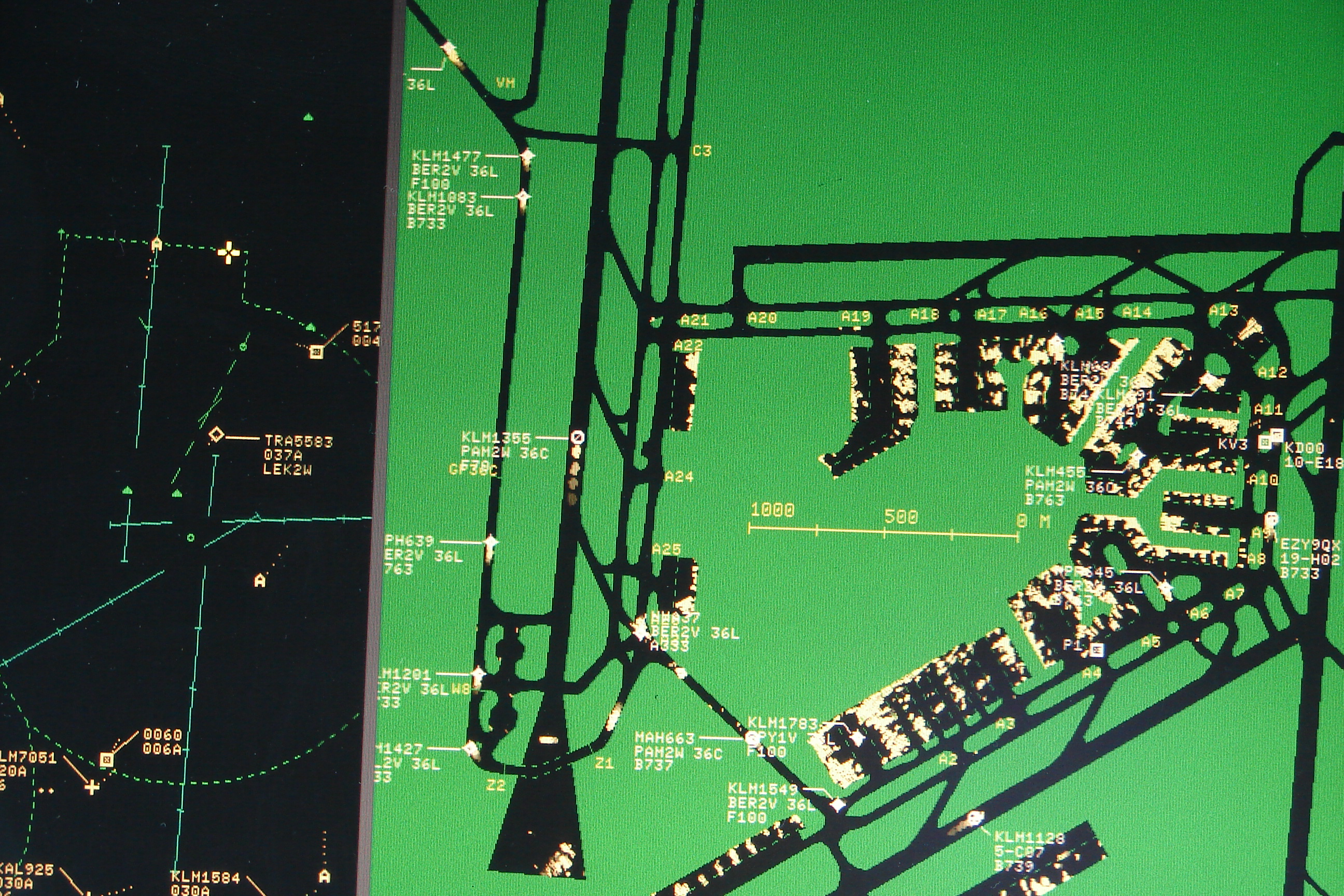 Display of the ground radar and ILS system, EHAM TOWER, Schiphol Airport